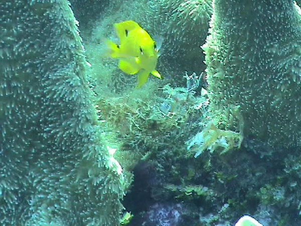 Juvenile threespot damselfish (Stegastes planifrons) in a pillar coral (Dendrogyra cylindrus) in Mona Island, Puerto Rico. Threespot damselfish are highly territorial, protecting the resources within their domain, They will aggressively attack and posture to scare off competitors, regardless of their size.